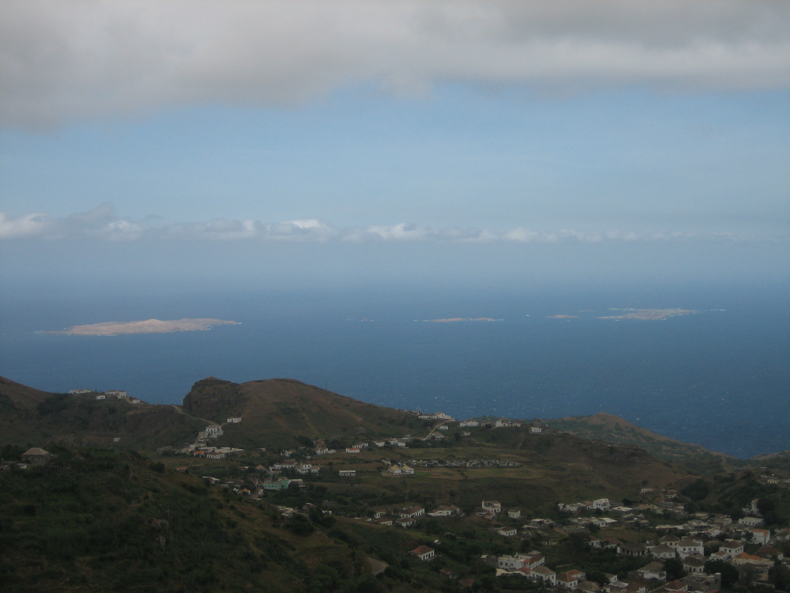 The uninhabited island group Ilhéus Secos or Ilhéus do Rombo with parts of the city of Nova Sintra on Brava, Cape Verde.